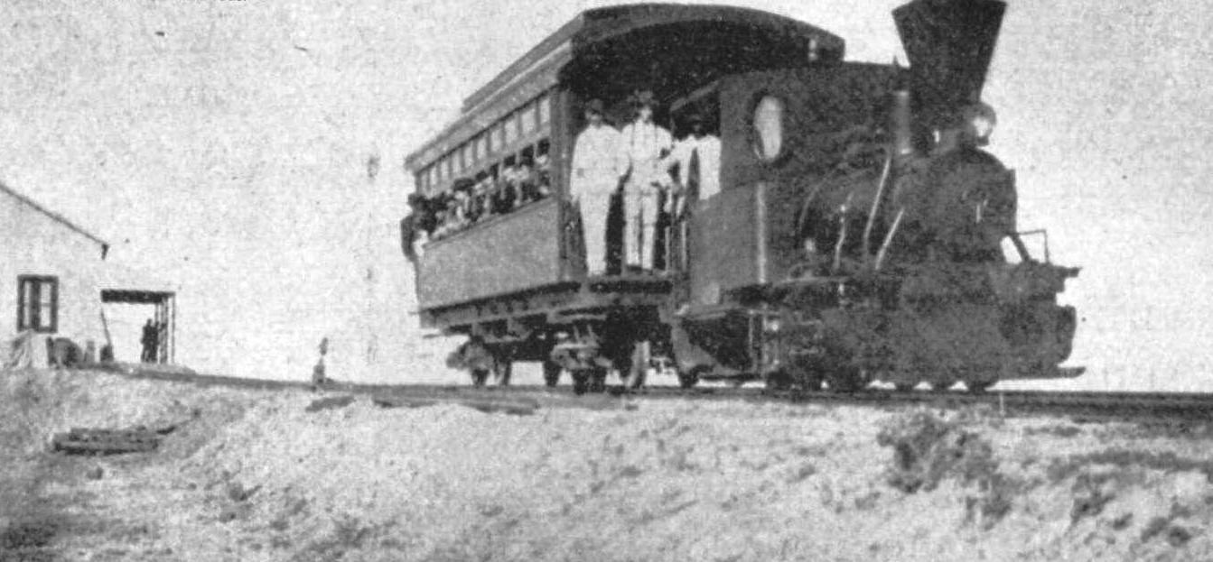 A train formed by a steam locomotive and one wagon, starting from Puente Alsina station. The line finished at Puente La Noria (today Ingeniero Budge station).